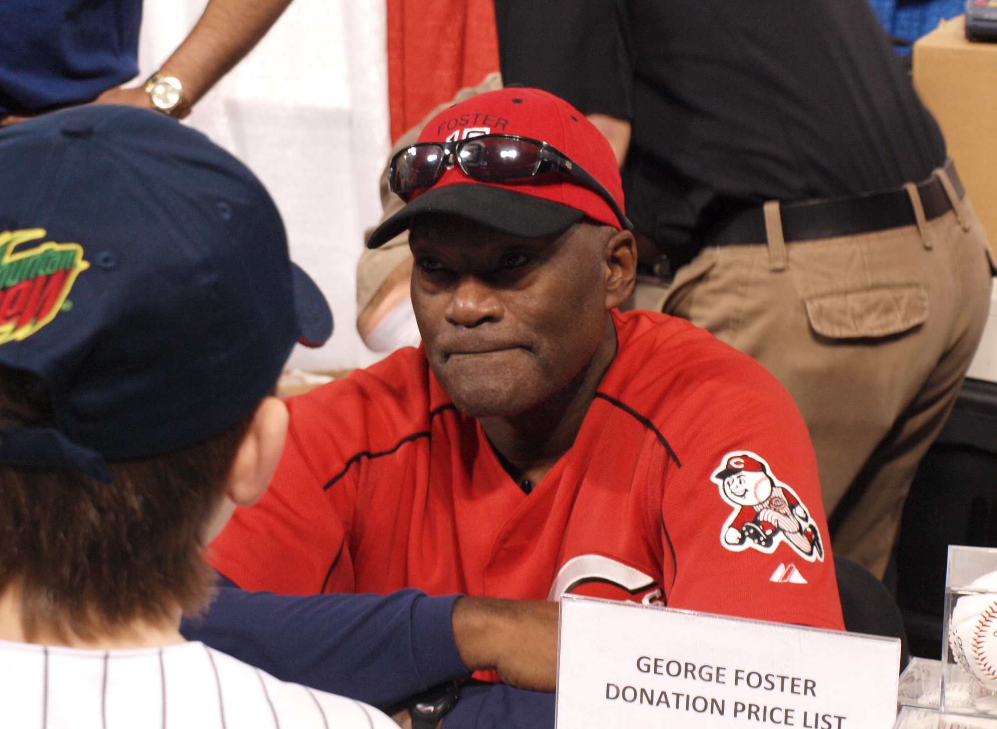 George Foster at Twins Fest 2010